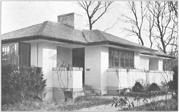 Anonymous. Summer House J.N. Verloop, Huis ter Heide [built 1914 by architect Robert van 't Hoff]. c 1919 (?). Photo. Rotterdam, Netherlands Architecture Institute.